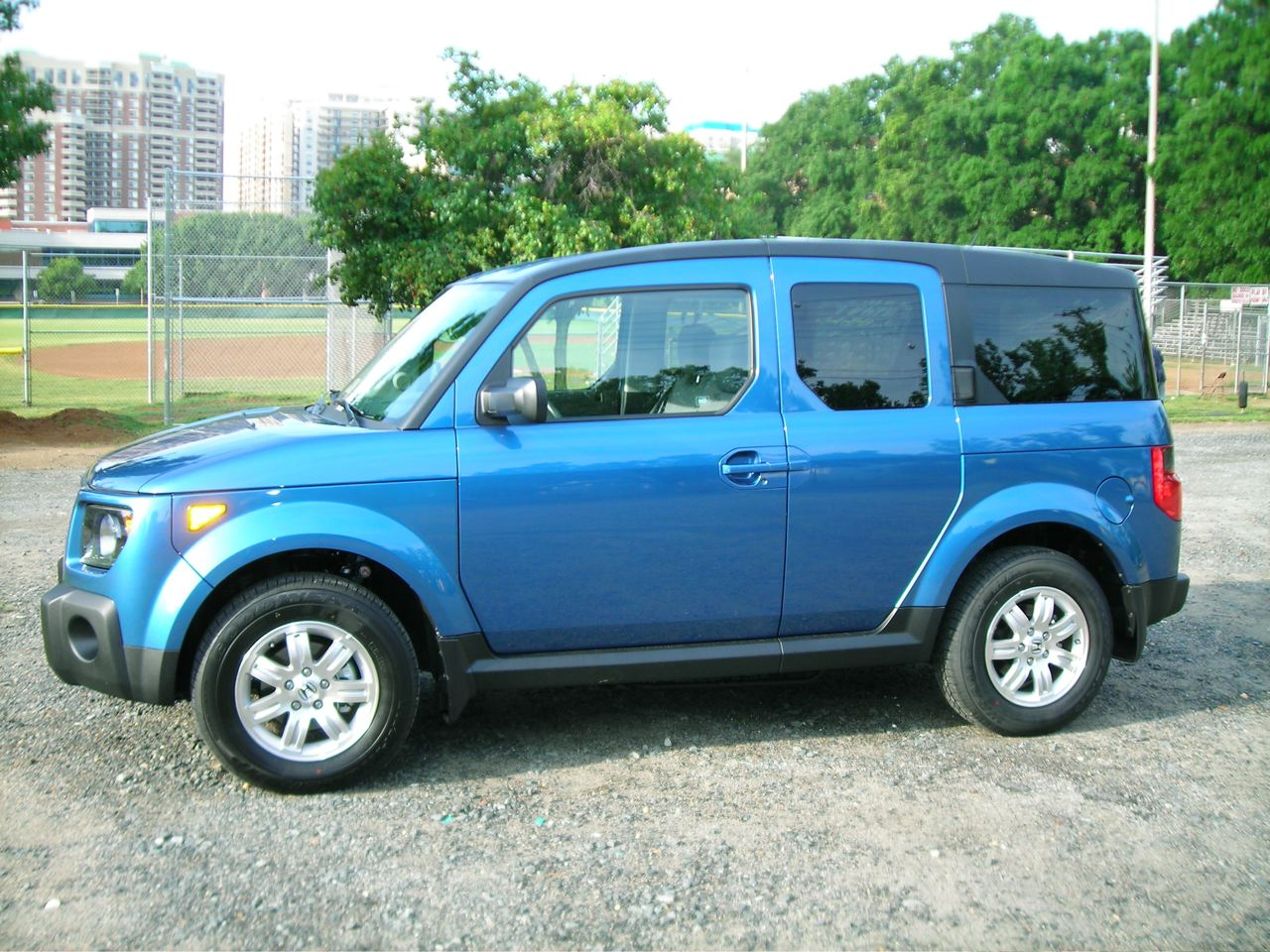 2008 Honda Element EX Atomic Blue